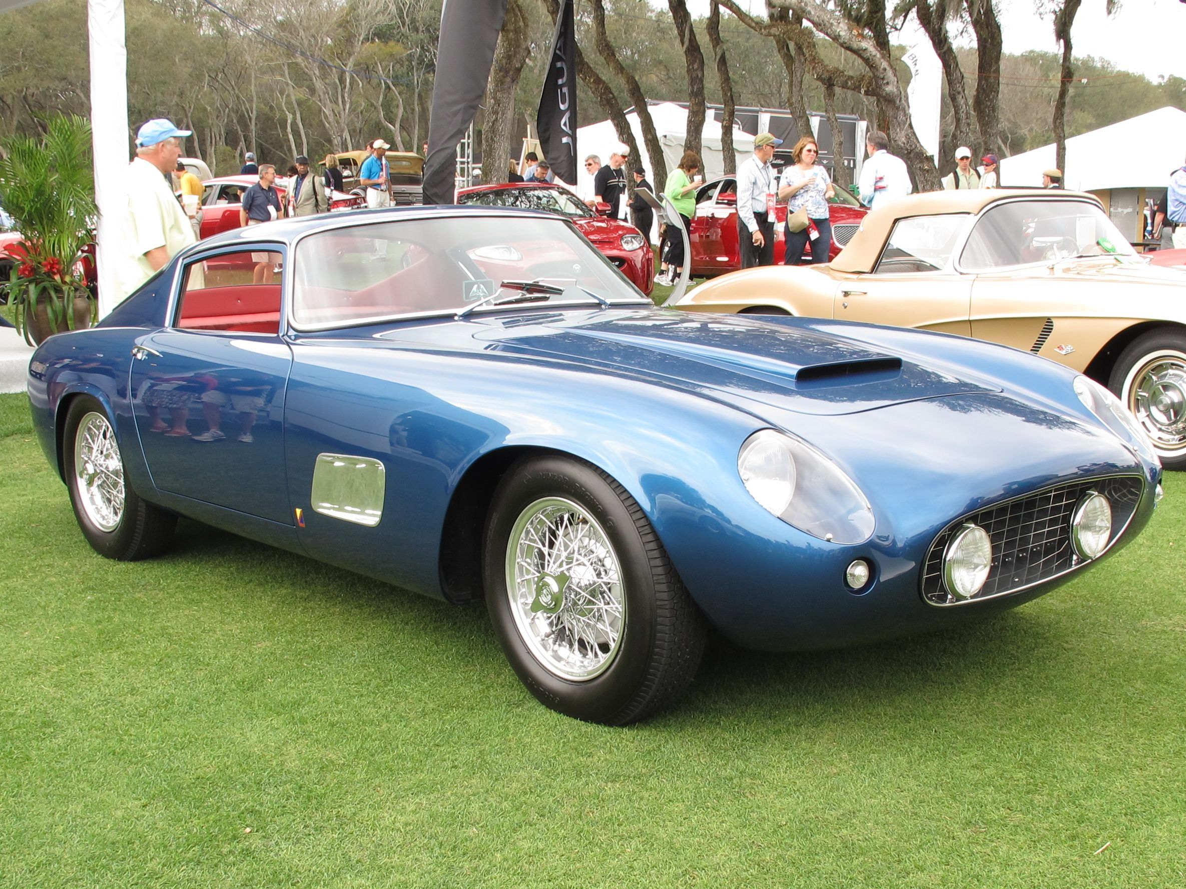 1959 Chevrolet Corvette chassis with a Scaglietti body at the Amelia Island Concours